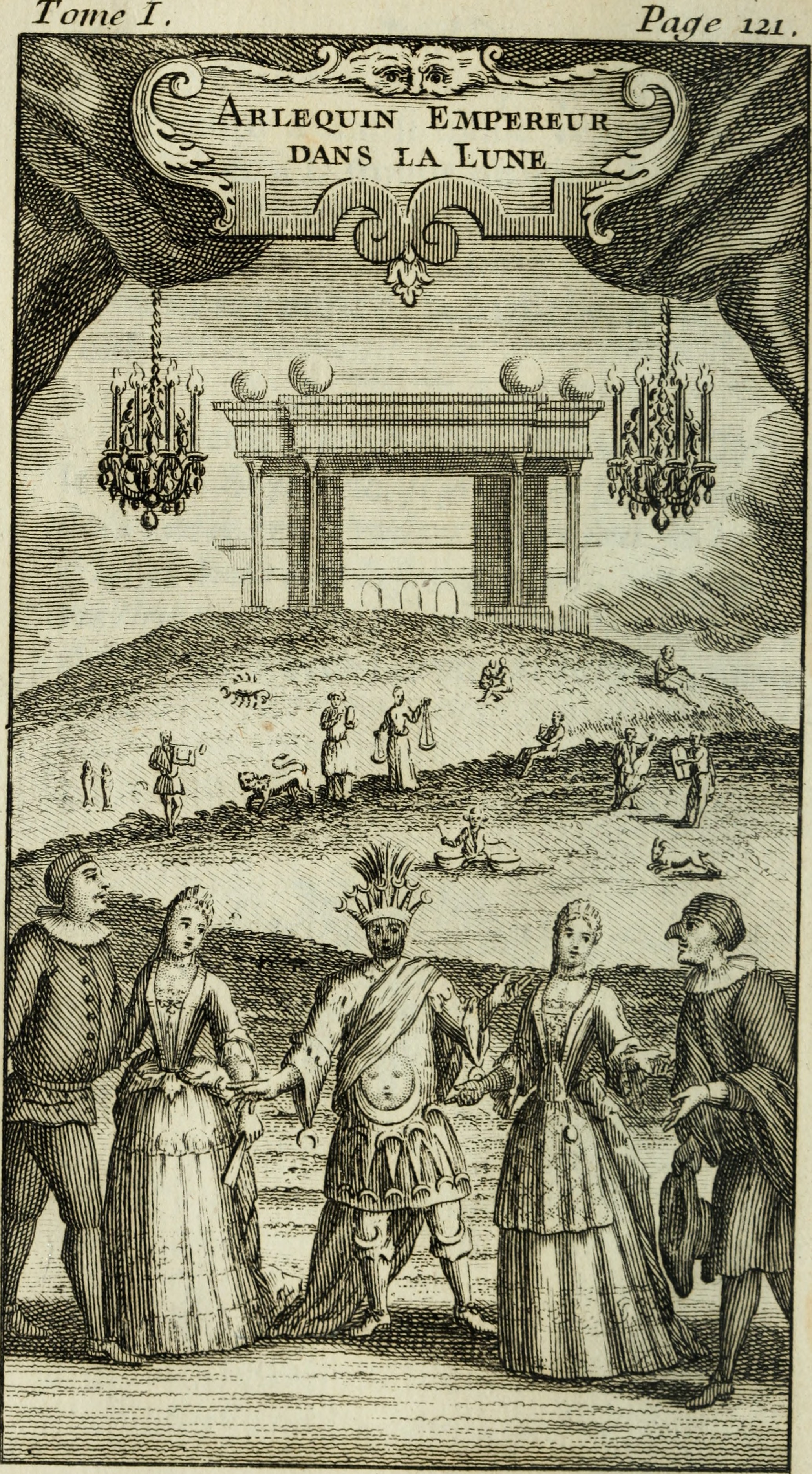 Title: Le Théâtre italien de Gherardi, ou, Le Recueil général de toutes les comédies & scènes françaises jouées par les comédiens italiens du roi, pendant tout le temps qu'ils ont été au service Year: 1741 (1740s) Authors: Gherardi, Evaristo, 1700 Subjects: Comédie-Française Théâtre français Publisher: Paris : Chez Briasson Text Appearing Before Image: ' Text Appearing After Image: ARLEQUINEMPEREUR DANS LA LUNE. COMEDIE EN TROIS ACTES Mife au théâtre par Monfieur D * * * * &reprefentée pour la première fois par lesComédiens Italiens du Roi dans leurhôtel de Bourgogne, le 5 Mars 1684. f 21